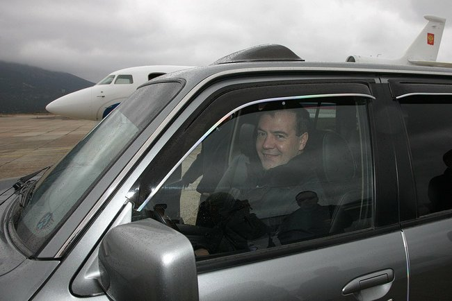 Trip to Kunashir Island.